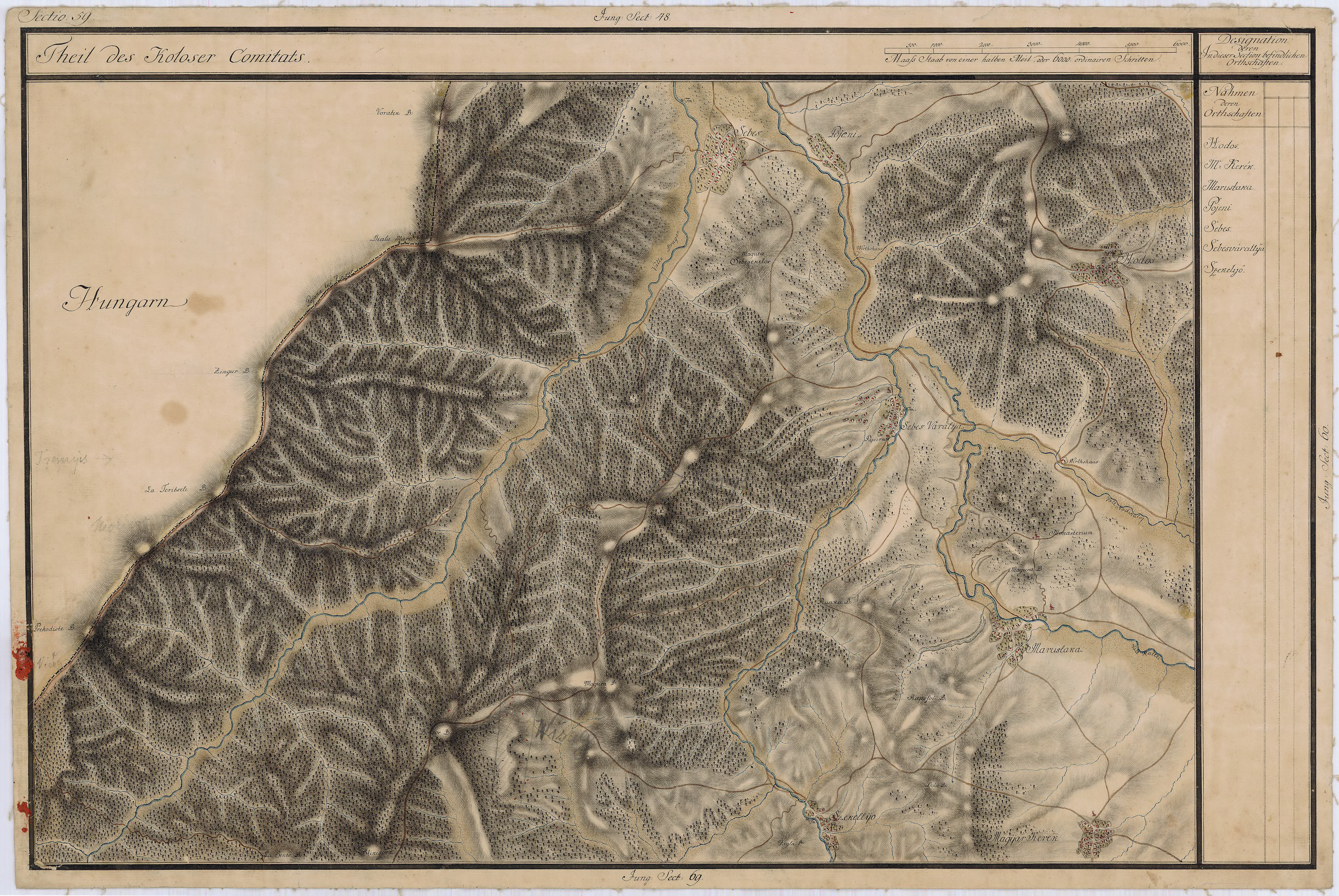 Grand Duchy of Transylvania, 1769-1773. Josephinische Landaufnahme pg.059